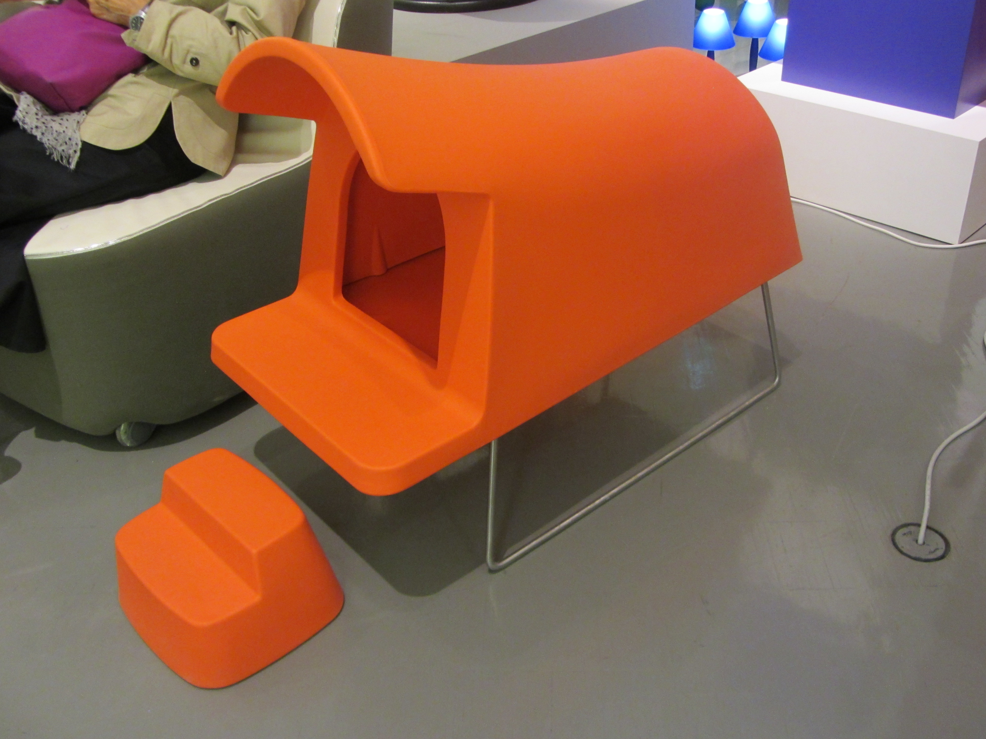 "Dog House": deisgned by Micheal Youg for the italian Magis (2001). The photo was make at Triennale Design Museum in Milan ( Free Day Photo) "le fabbriche dei sogni"